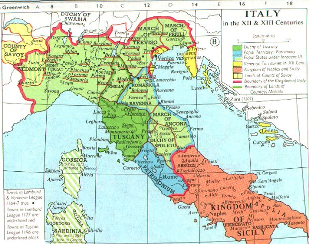 Twelfth Century Italy